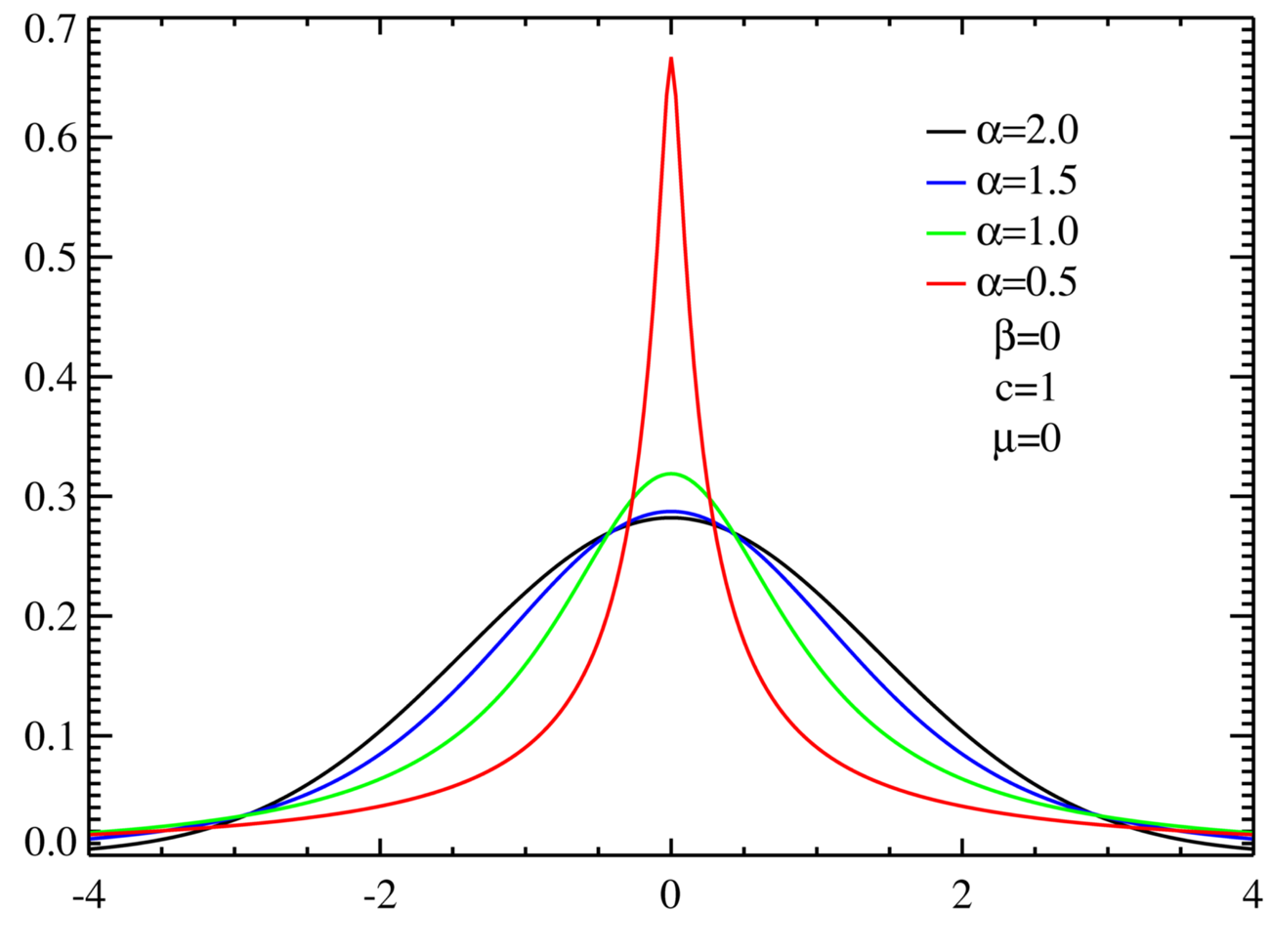 Probability density function for symmetric Levy distributions